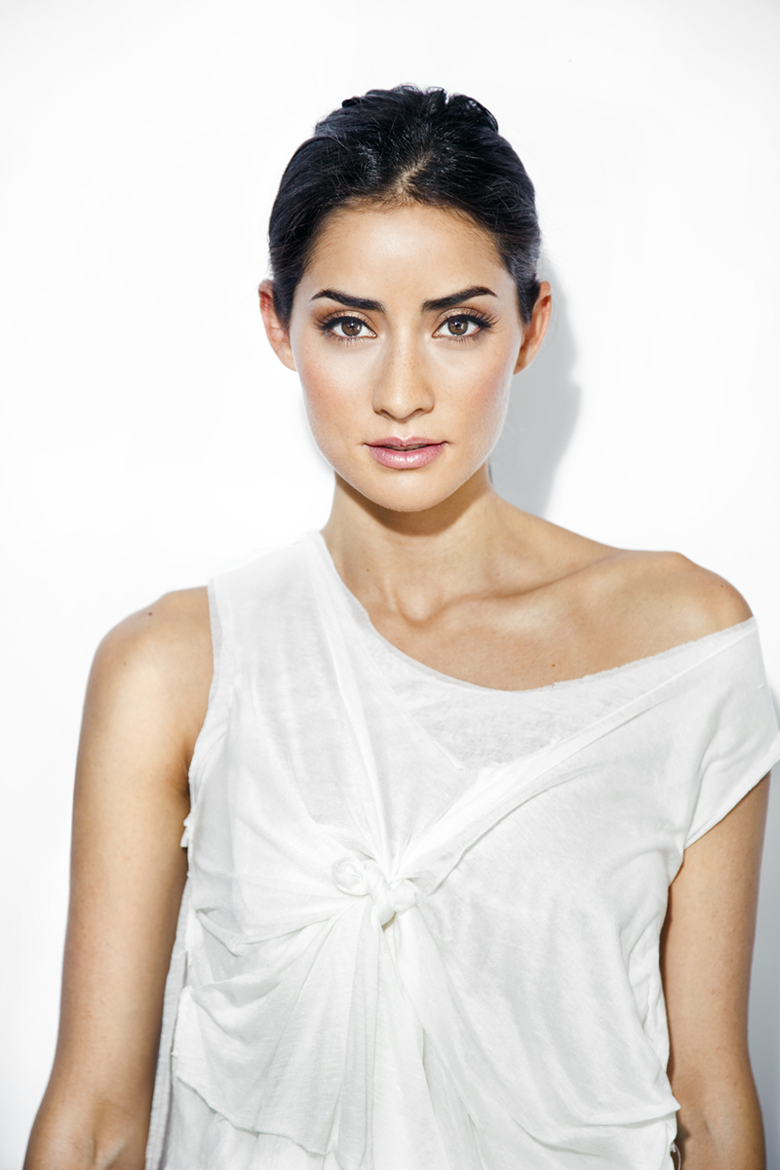 Paola Núñez